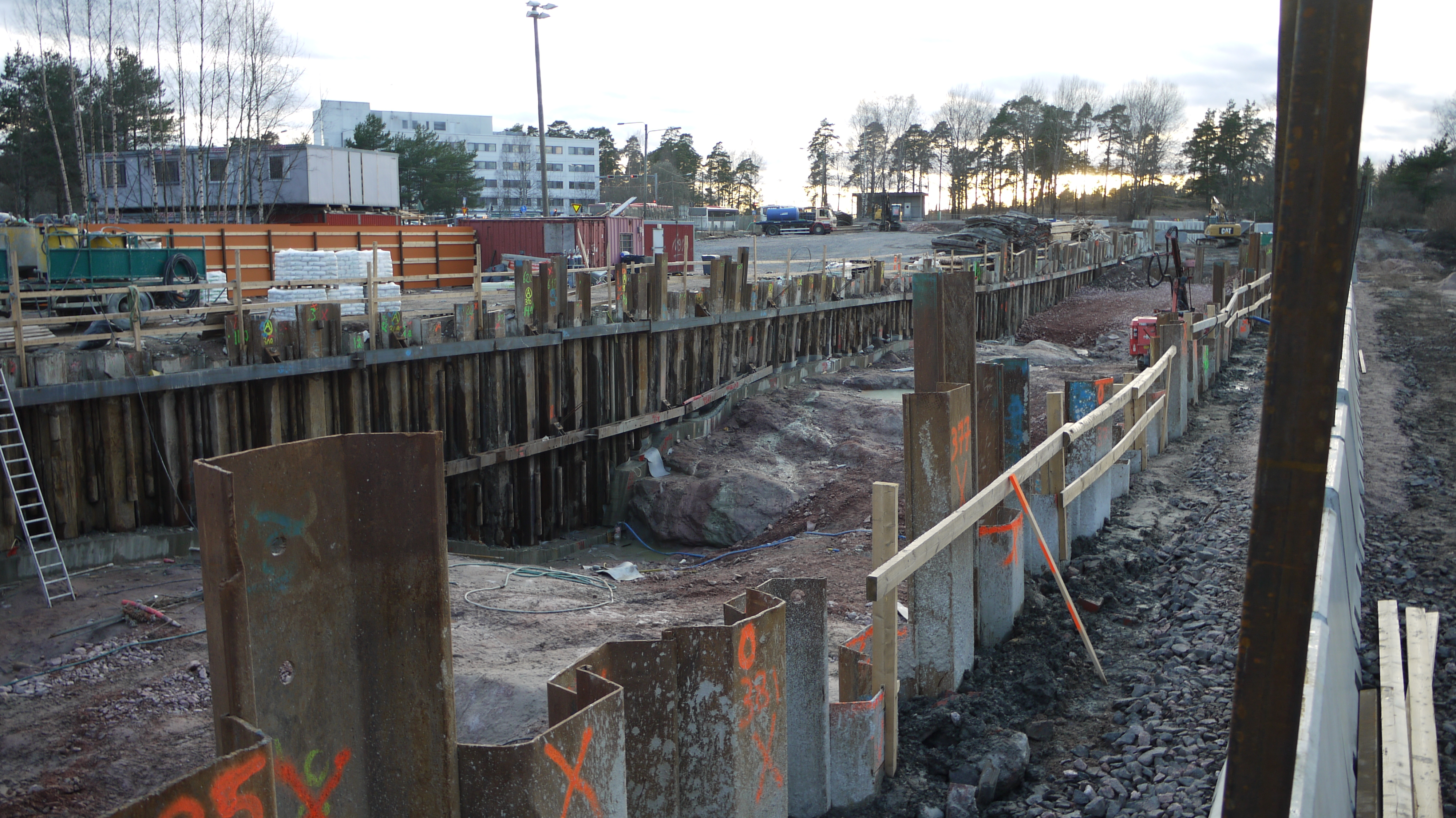 Länsimetro's construction site in Kivenlahti, Espoo (April 2015).